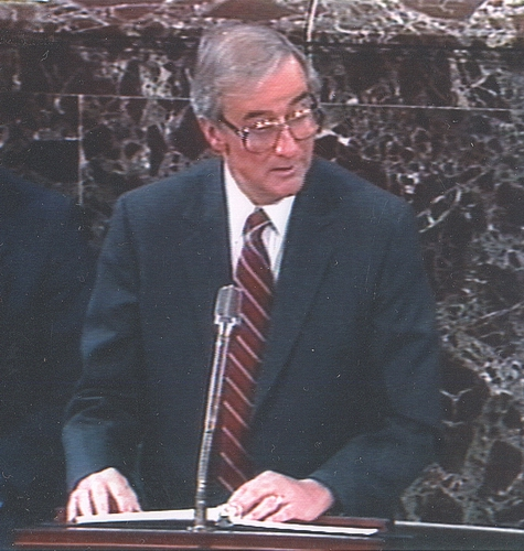 Judge Walter Nixon, who was impeached by the Senate in a famous controversy